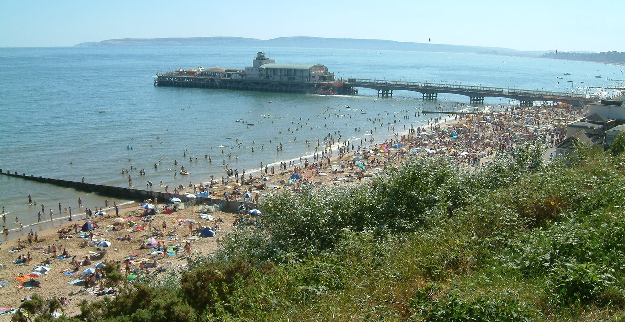 Bournemouth beach, Bournemouth, England, United-Kingdom